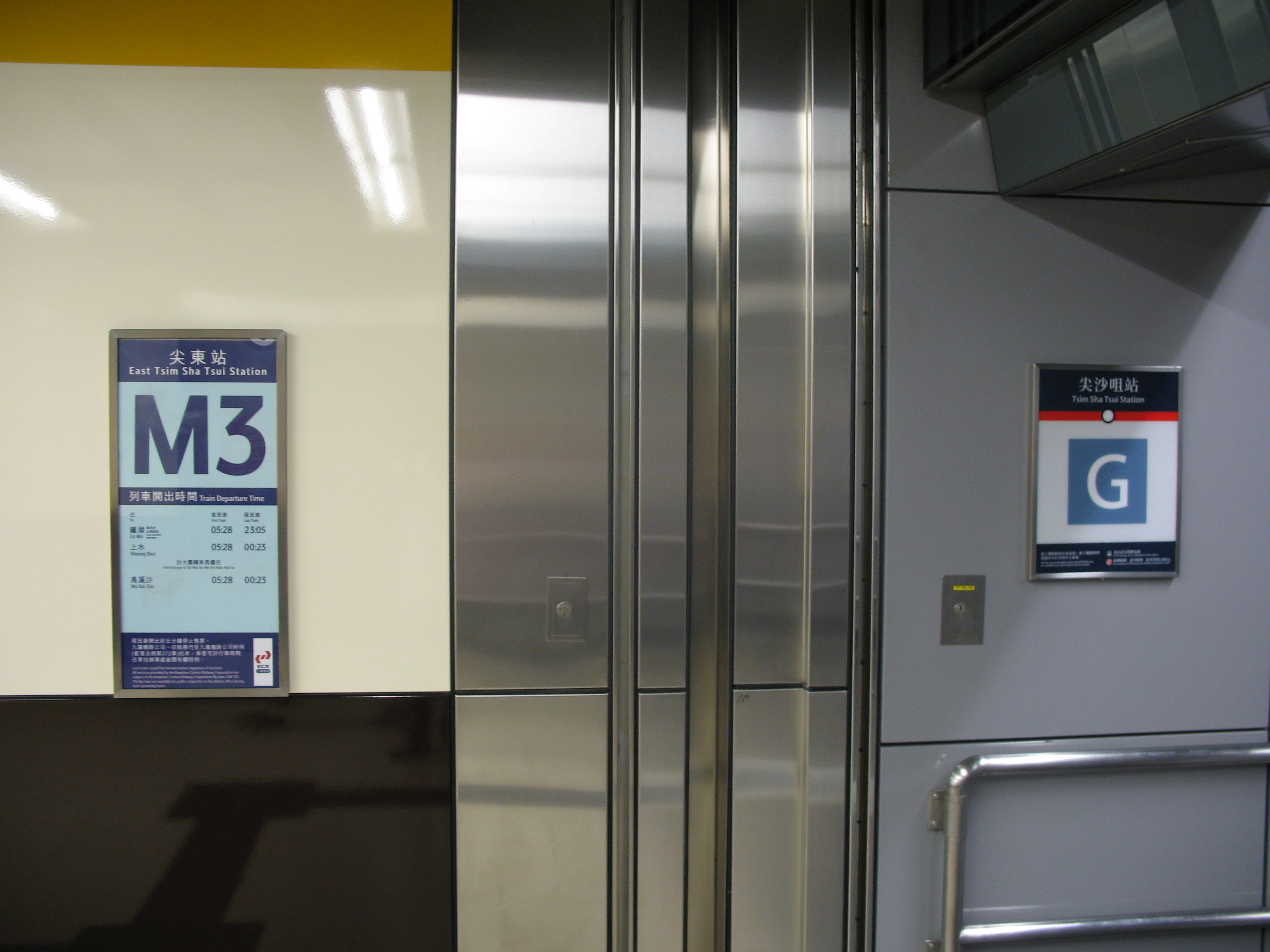 between MTR Tsim Sha Tsui Station Exit G and KCR East Tsim Sha Tsui Station Exit M3 在地鐵尖沙咀站G出口和九鐵尖東站M3出口中間